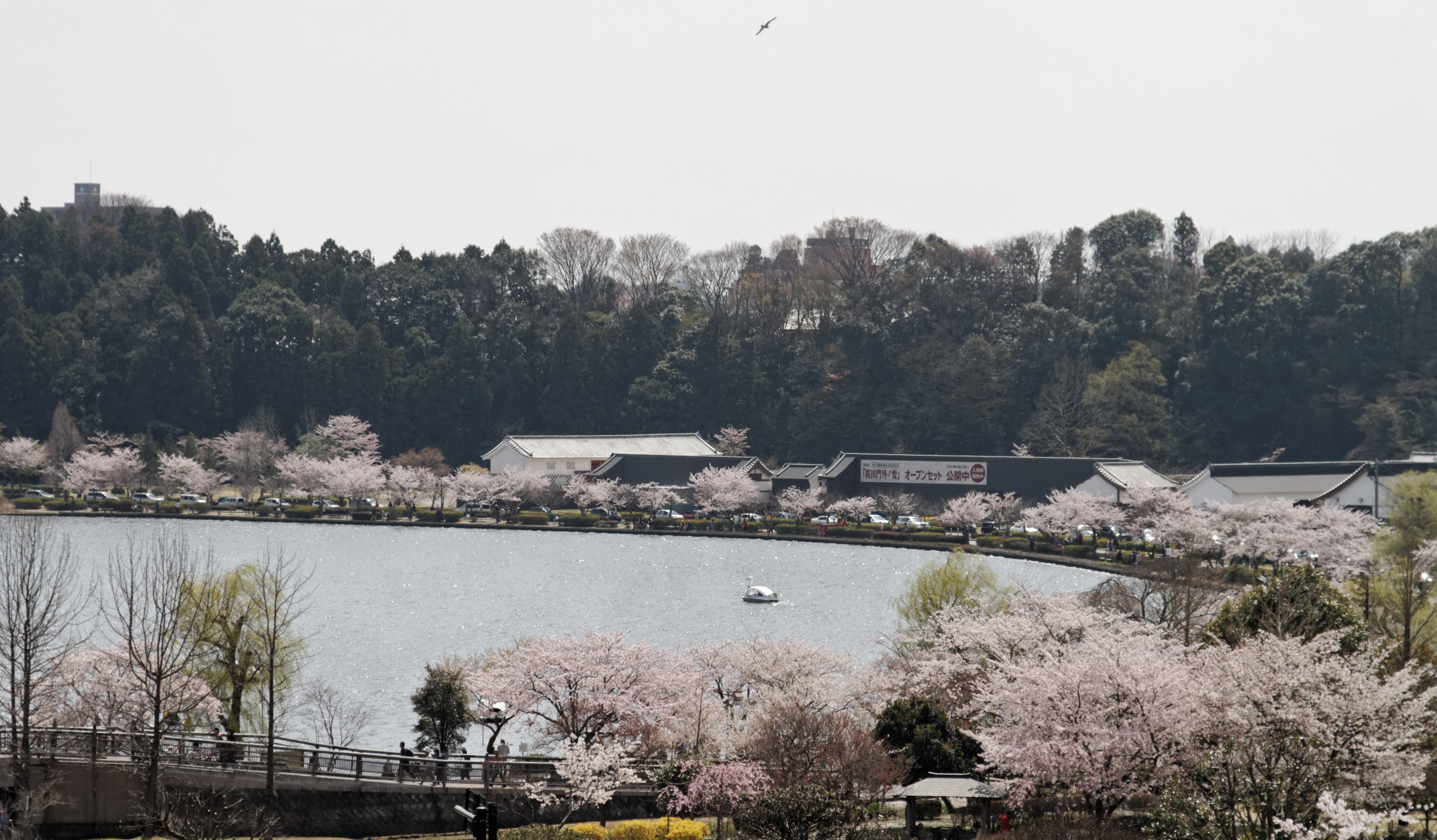 Kairakuen